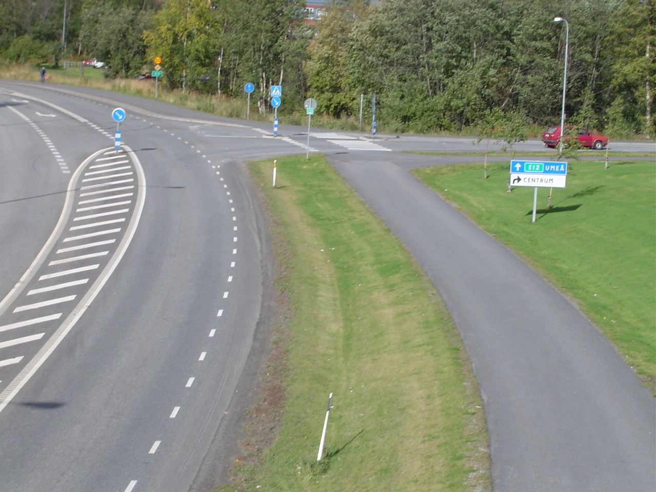 The Umeå–Holmsund highway (E12)